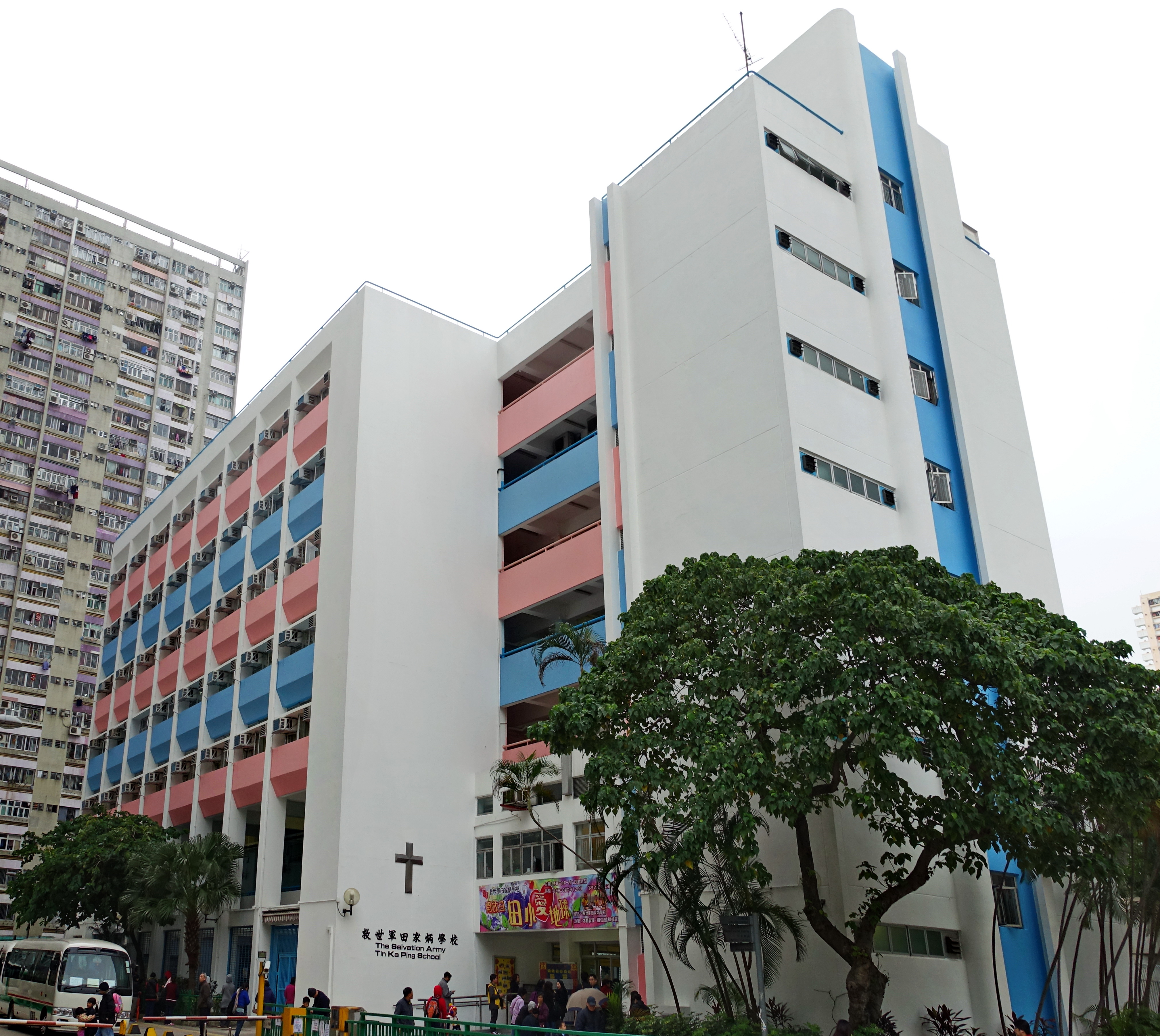 The Salvation Army Tin Ka Ping School, Hong Kong.